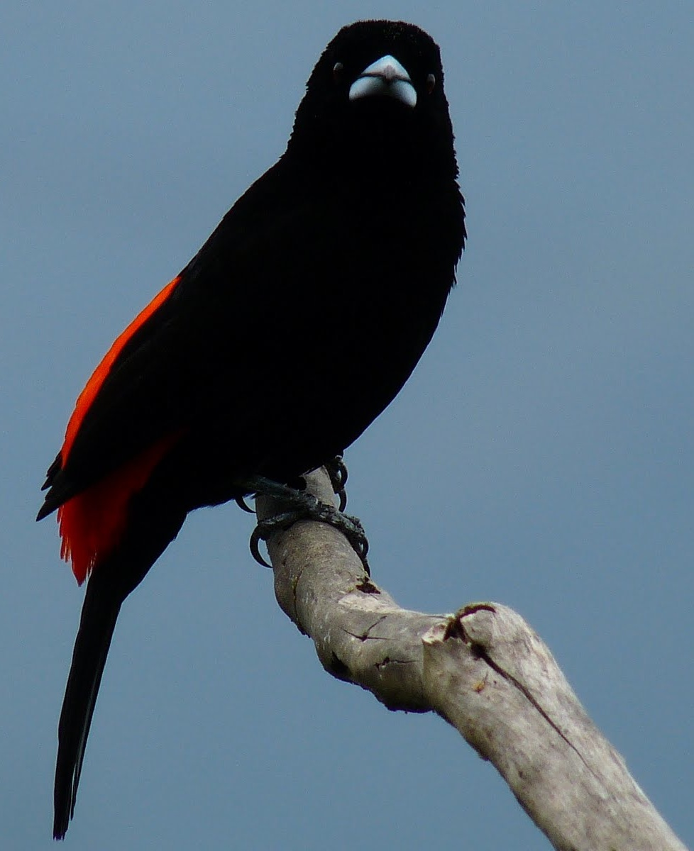 Flame-rumped Tanager (Ramphocelus flammigerus) male. Taken at Aralcal, The Coffee Forest, Manizales, Colombia.